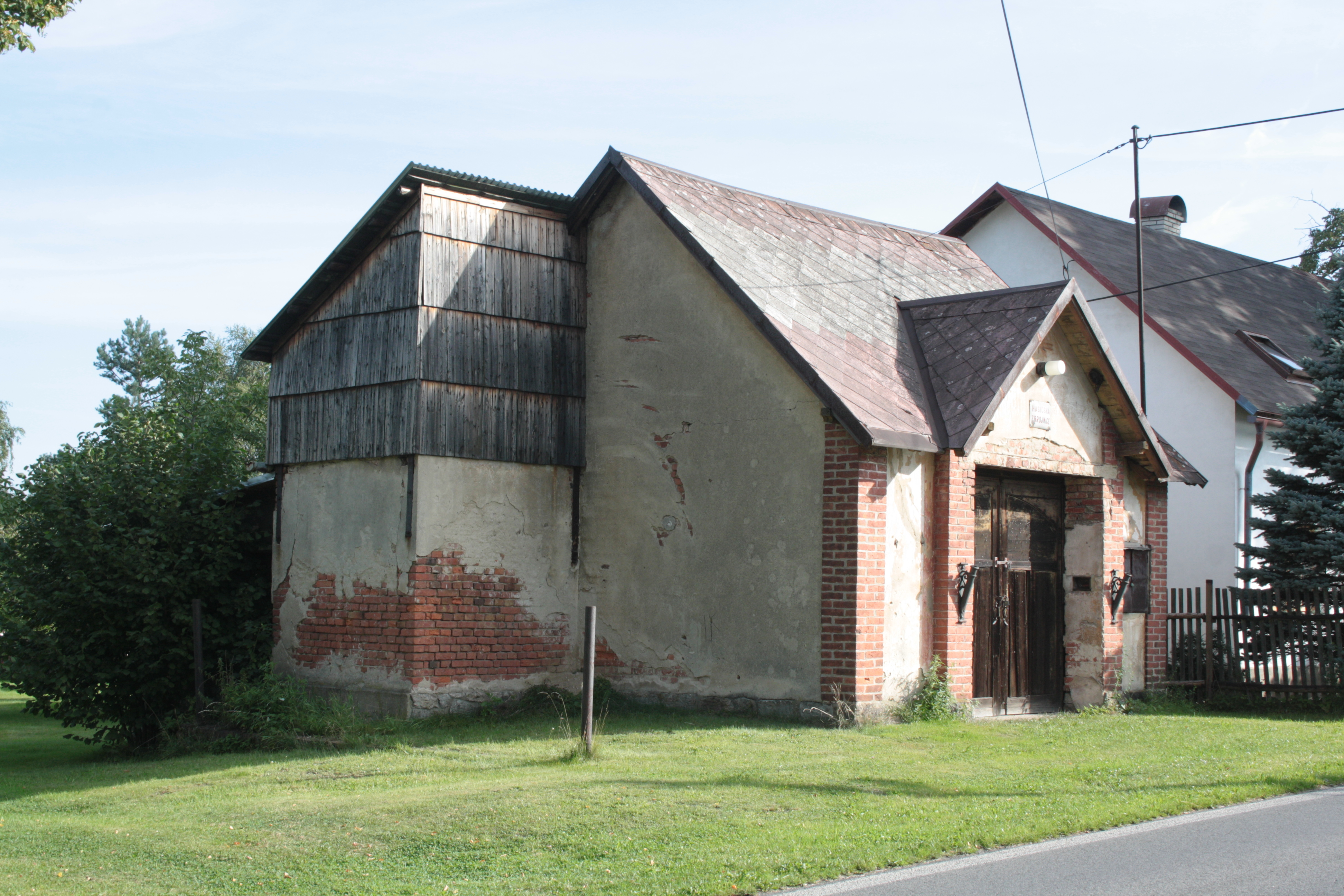 This photograph was taken with a DSLR from WMCZ's Camera grant. Hasičská zbrojnice v Hajništi.